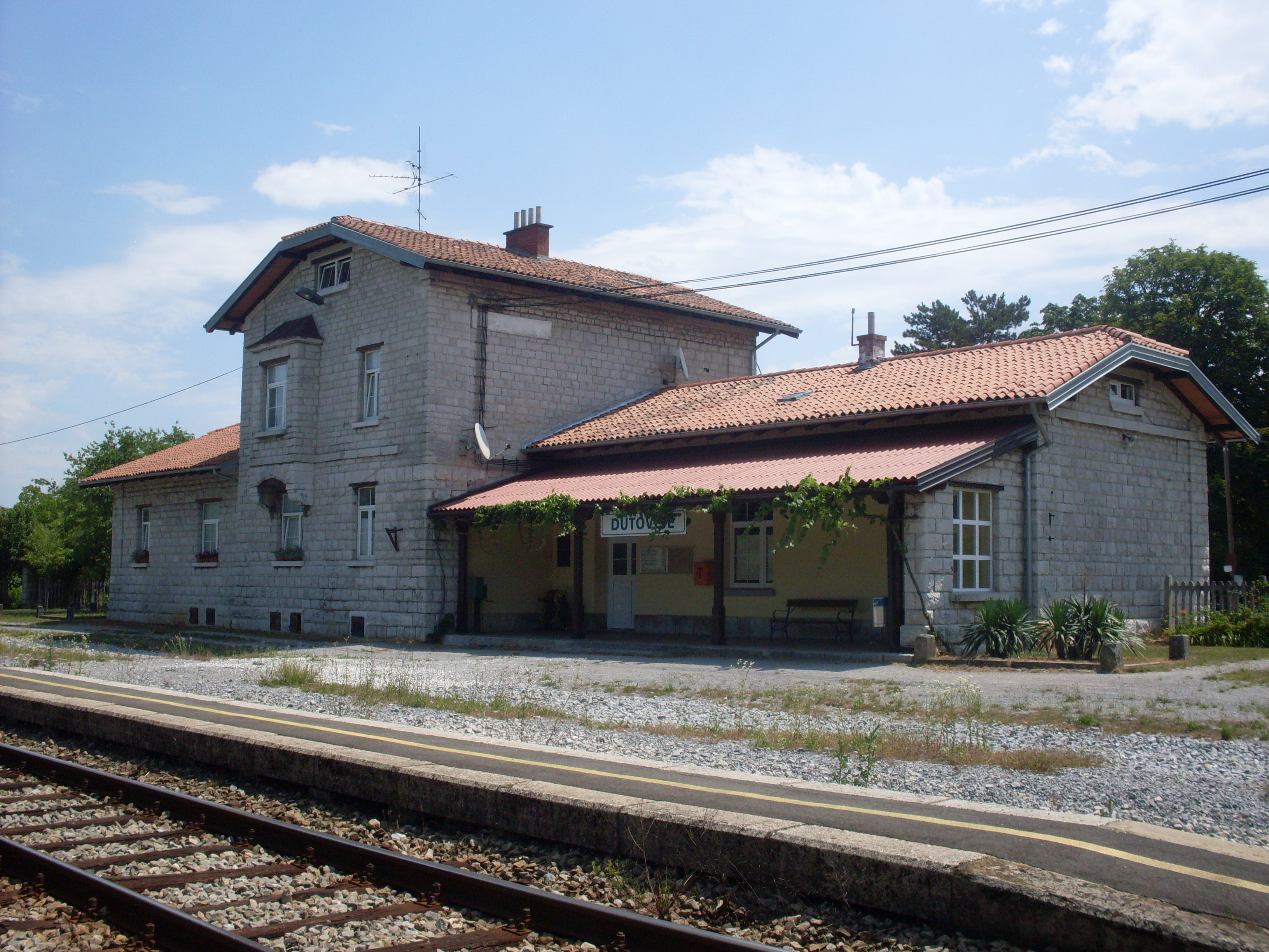 Railway halt Dutovlje, located between Dutovlje and Skopo